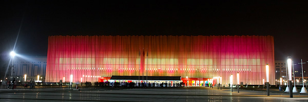 External View of the MasterCard Center in Beijing, China (formerly Beijing Wukesong Culture & Sports Center)